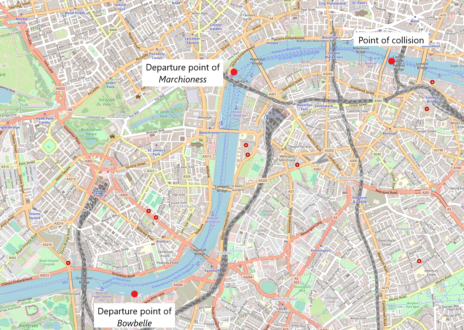 Map of the Thames from Chelsea Bridge to London Bridge, showing the departure points of Bowbelle and Marchioness and the point the two vessels collided.